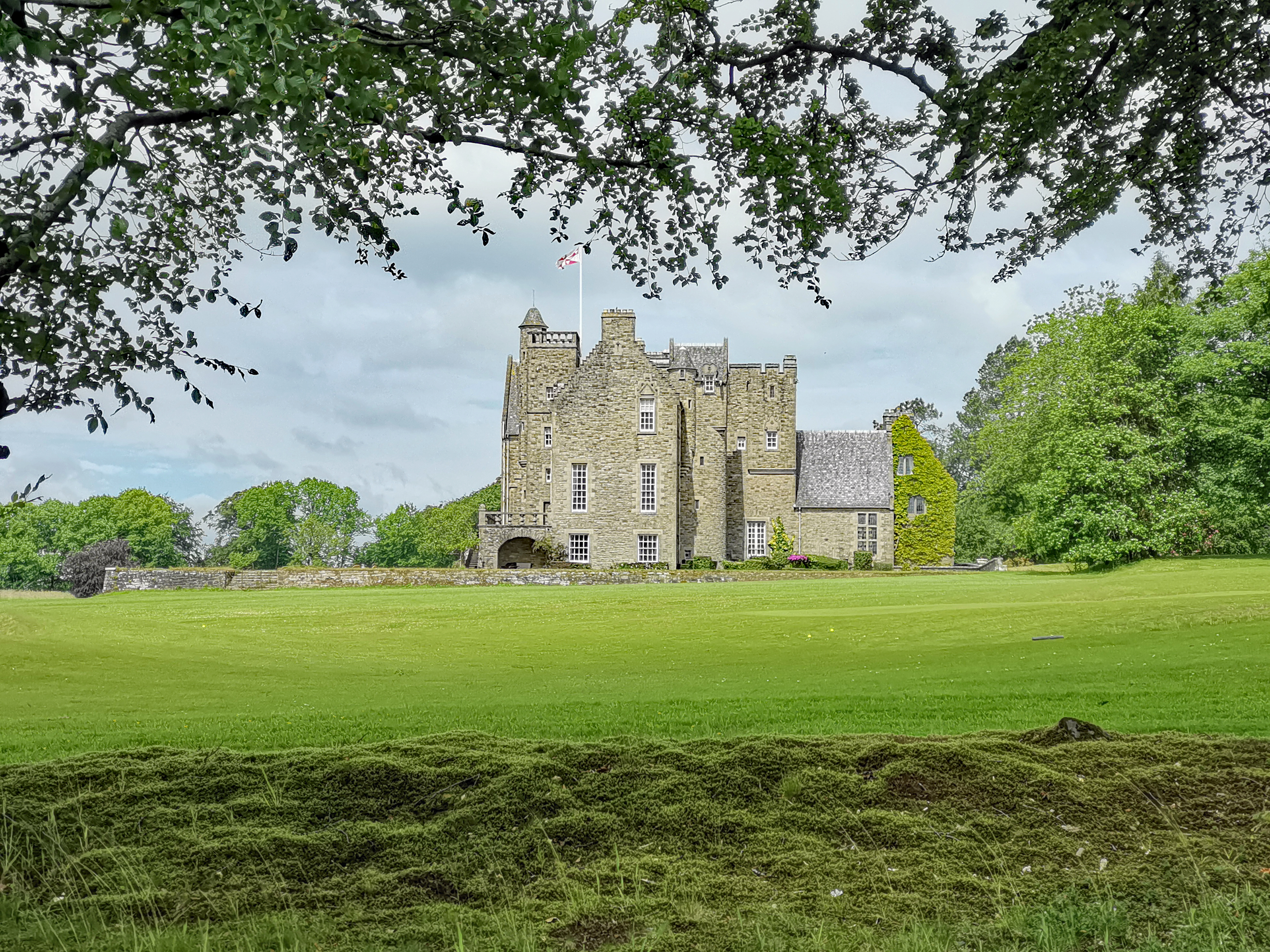 Rowallan House near Castle (Ayrshire, Scotland, UK)